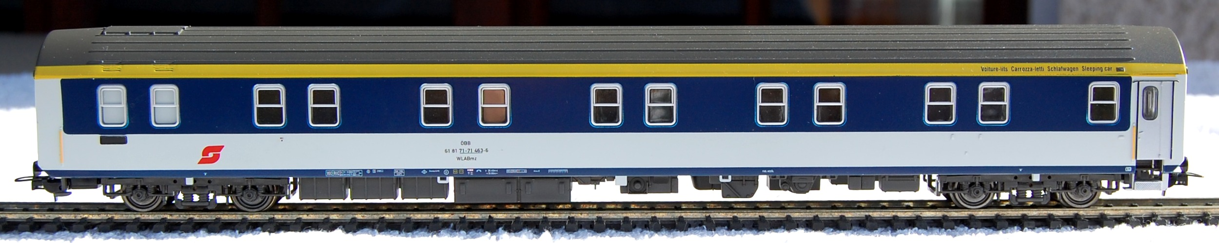 WLABmz ex-T2S, ÖBB, Austria. Scale model by Heris.